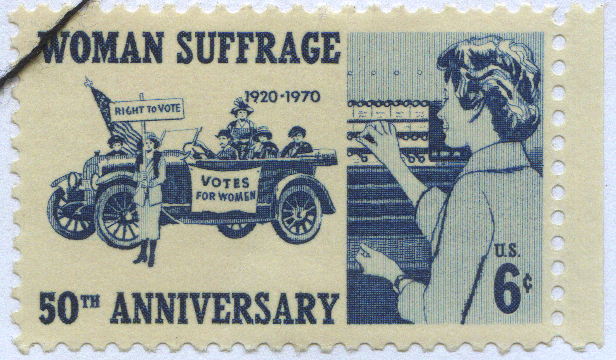 Commemoration of the 1970 anniversary of the 19th Amendment to the U.S. Constitution; the amendment was ratified in 1920 and provided for women's suffrage. Stamp collectors likely often refer to the stamp as U.S. Scott 1406.